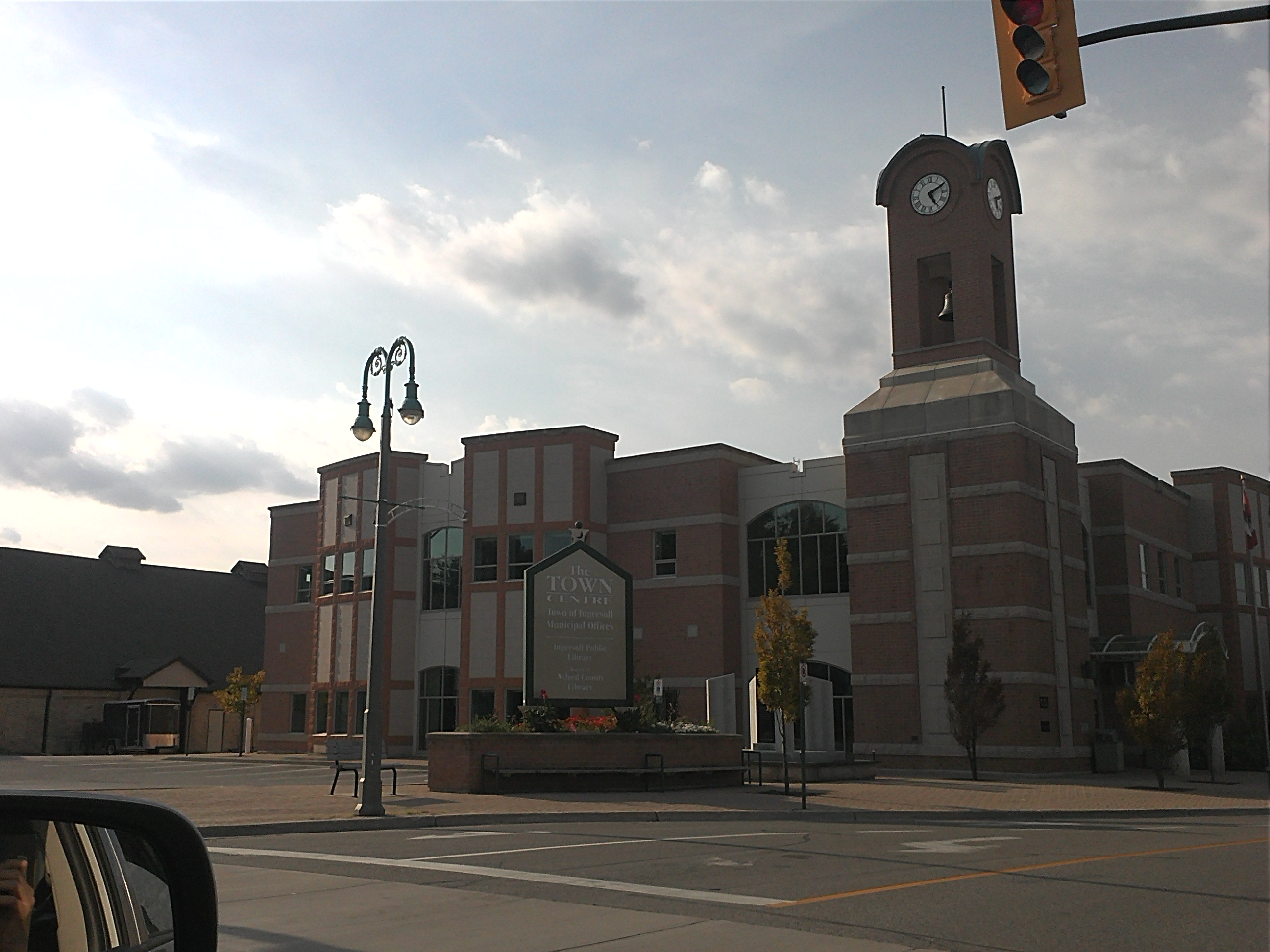 September 2012